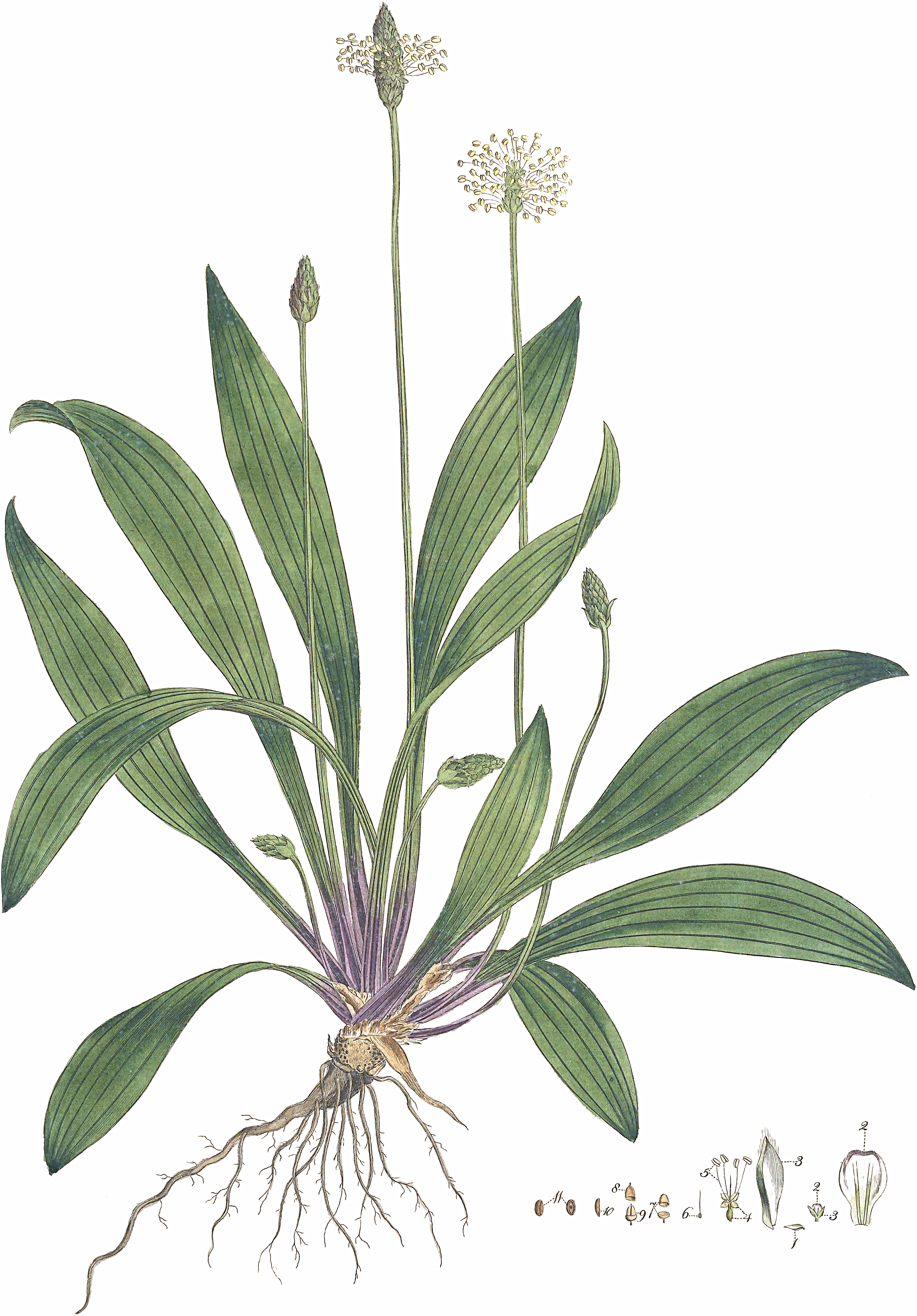 Curtis, William; Darton, William; Edwards, Sydenham; Kilburn, William; Sansom, Francis; Sowerby, James; White, Benjamin: Flora Londinensis, or, Plates and descriptions of such plants as grow wild in the environs of London : with their places of growth, and times of flowering, their several names according to Linnæus and other authors : with a particular description of each plant in Latin and